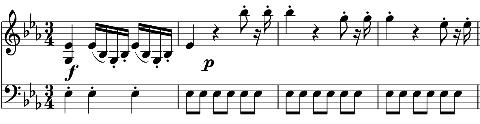 Joseph Haydn, Symphony No. 76, first movement, bar 1-4